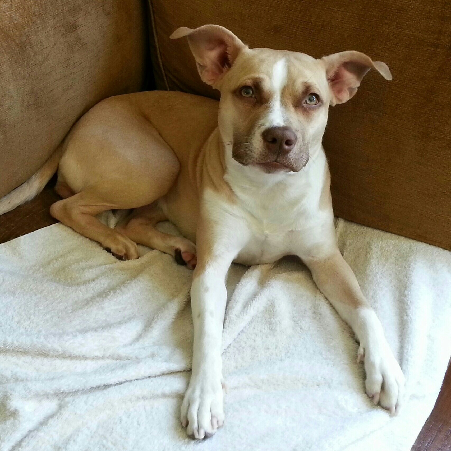 American Pitbull Terrier